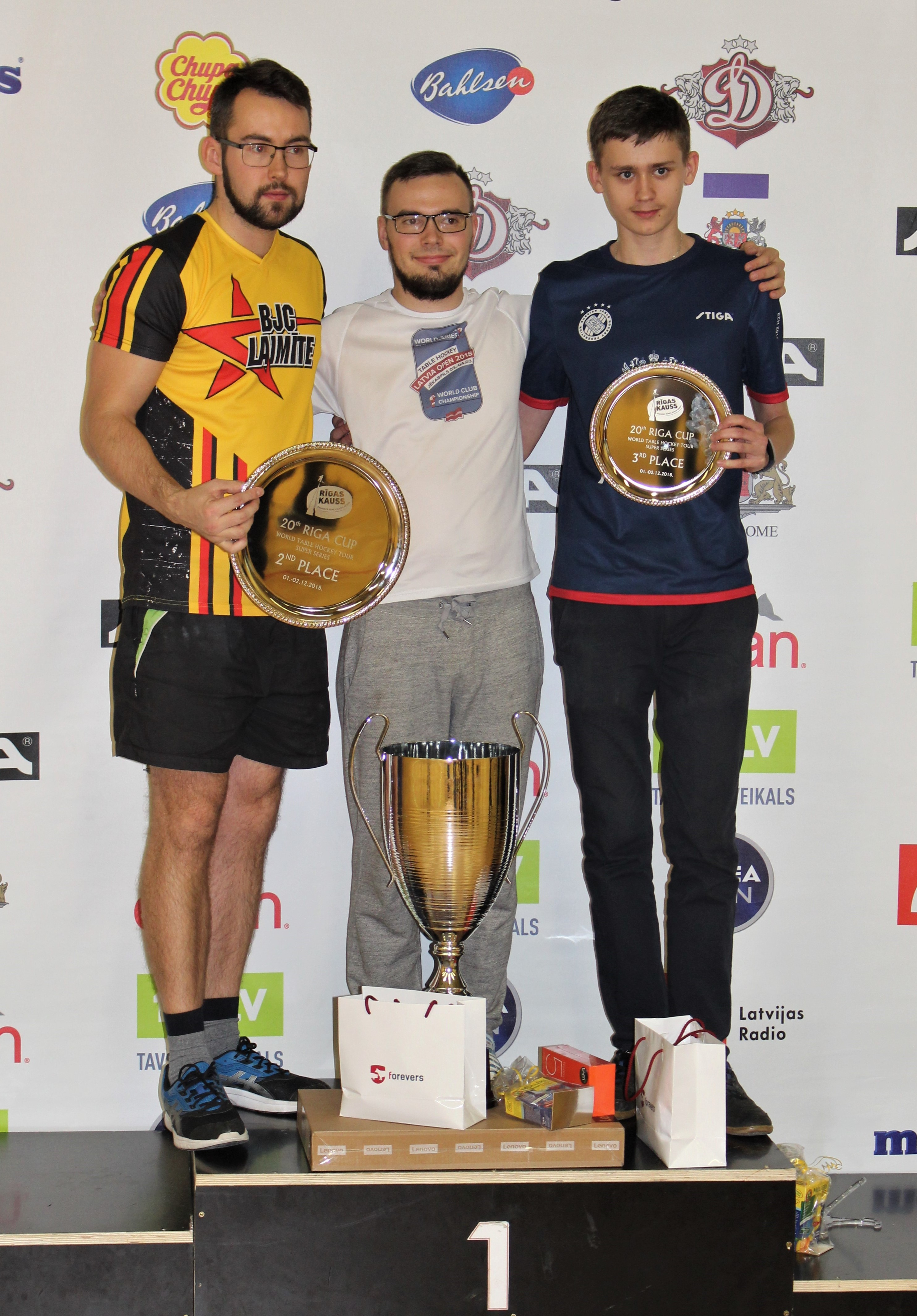 Table hockey Riga Cup - 2018 winners. At centre - 1. place, Arseniy Stolyarov (Russia). Right - 2. place, Nikita Zholobov (Russia). Left - 3. place, Edgars Caics (Latvia).